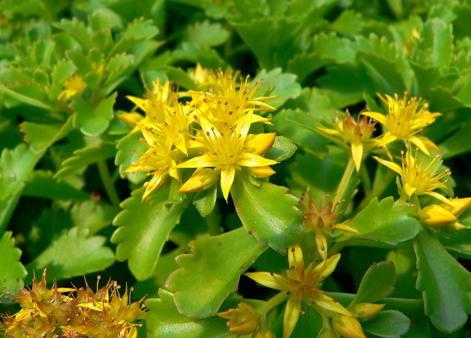 Photo of Sedum kamtschaticum at VanDusen Botanical Garden